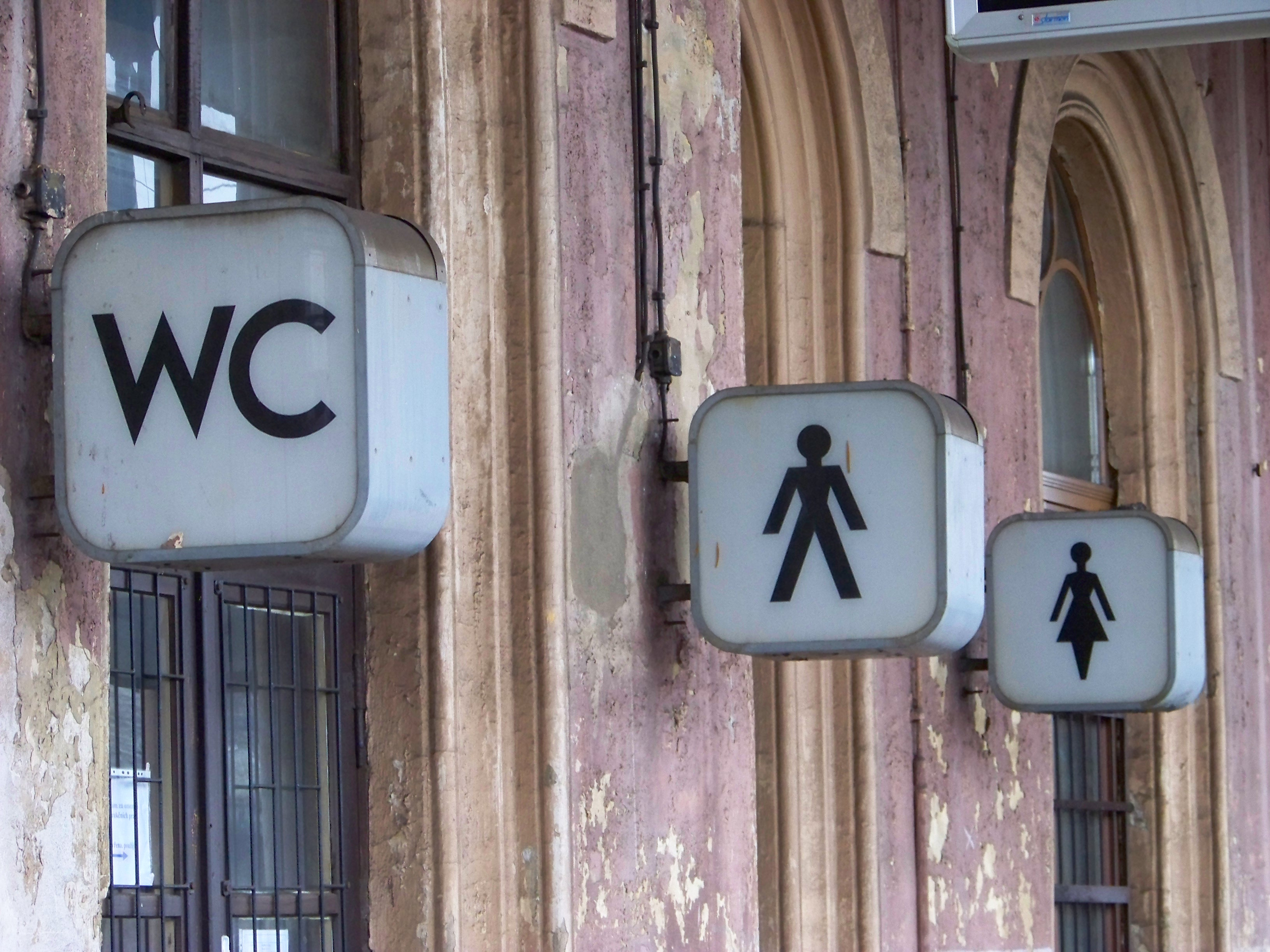 Teplice, Teplice District, Ústí nad Labem Region, the Czech Republic. Train station Teplice v Čechách, WC.